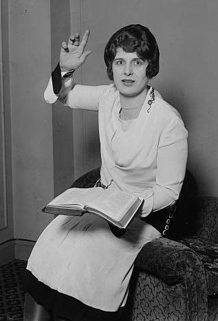 A photo of Aimee Semple McPherson, the founder of the Foursquare Church.